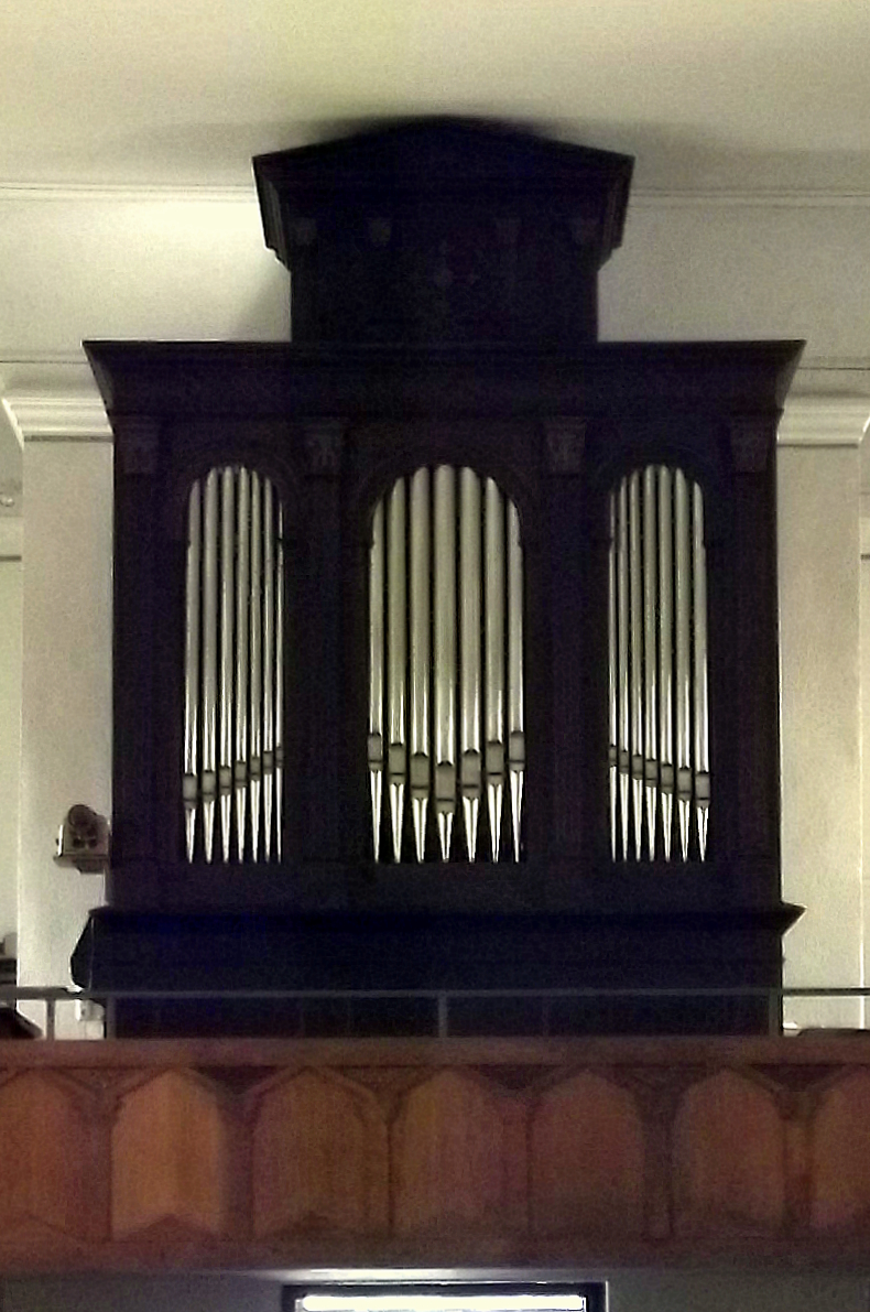 Interior of the roman catholic church in Nennig, Saarland, Germany